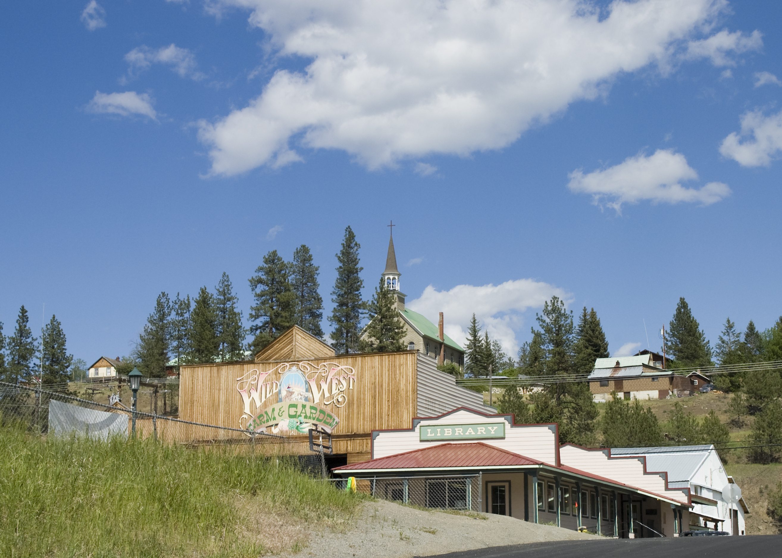 A photograph of public library, The Wild West Farm and Garden feed store, and Church of the Immaculate Conception Catholic church in Republic in Ferry County, Washington.